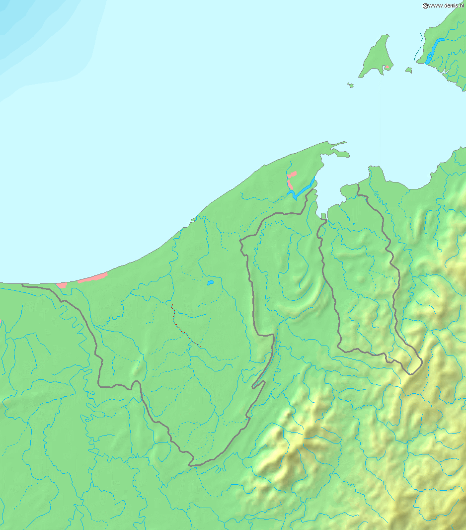 Blank relief map of Brunei. Equirectangular projection centered at 4°39′00″N 114°45′00″E / 4.65000°N 114.75000°E. Geographic limits of the map: N: 5.5° N S: 3.8° N W: 114° E E: 115.5° E